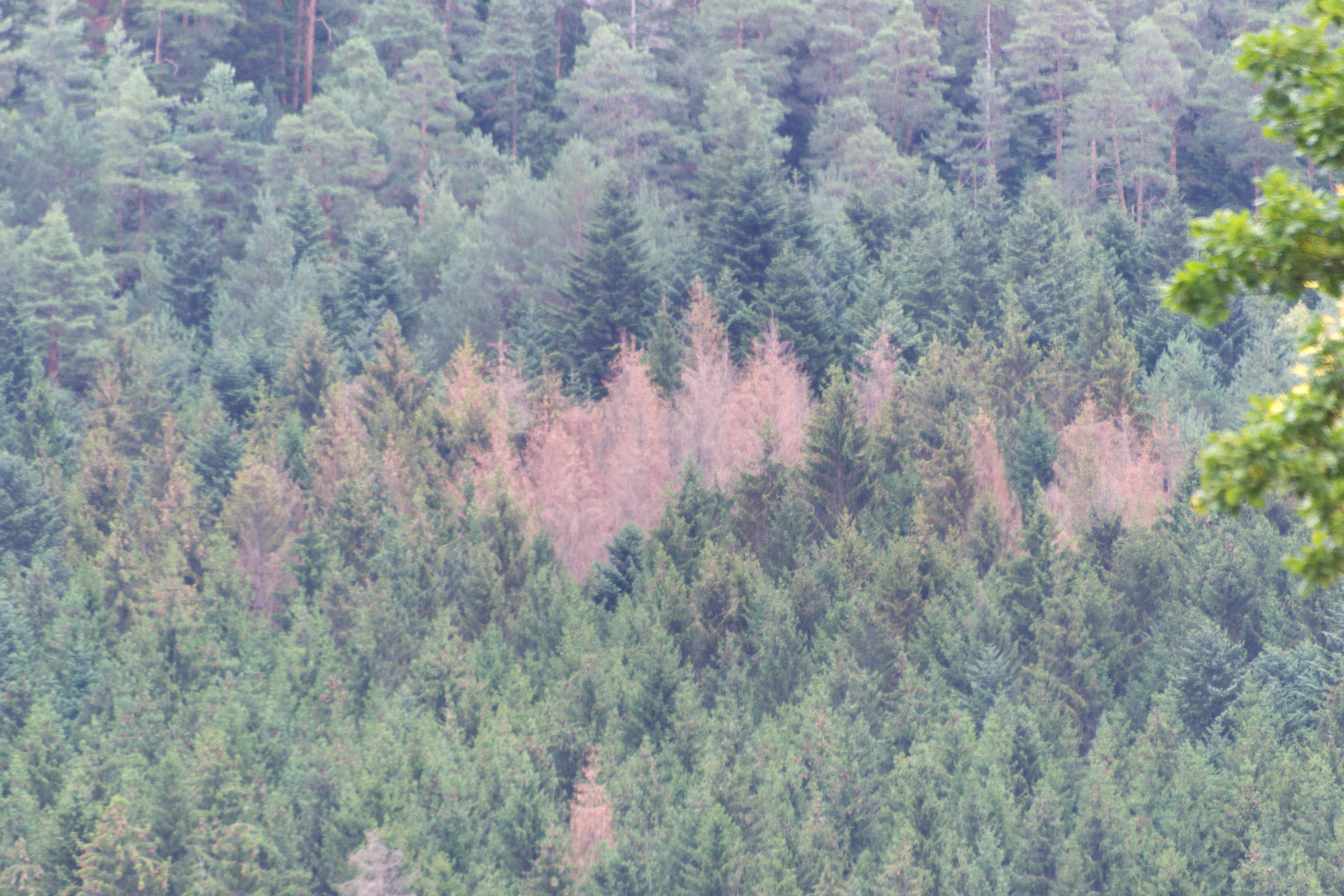 A spot of Norway spruce killed by European spruce bark beetle, forming a typical brown spot in the spruce forest